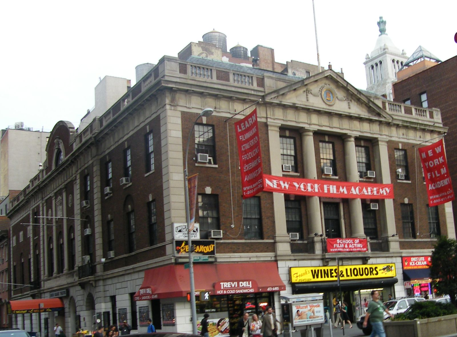 New York Film Academy at the Union Square Theatre.